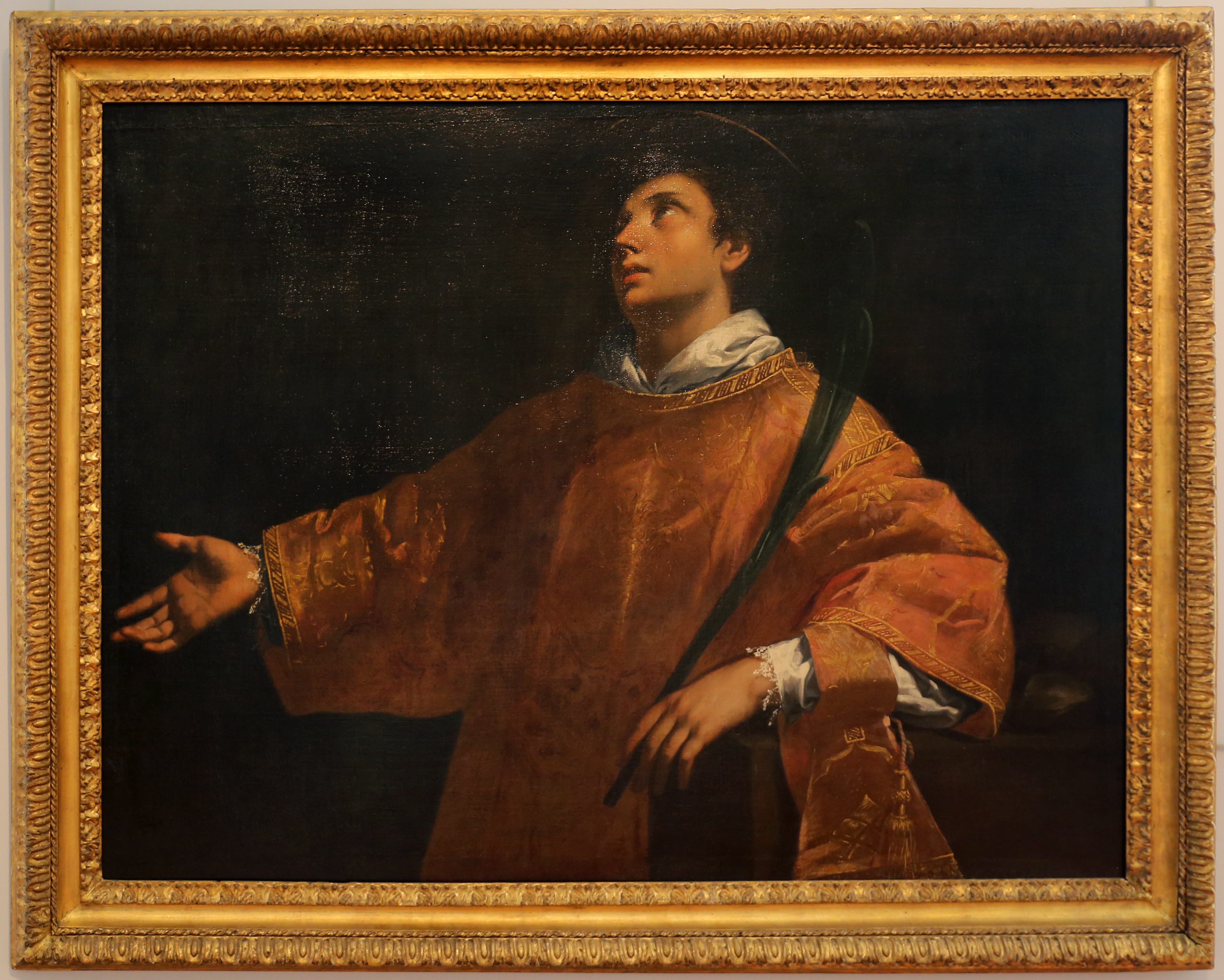 Paintings in the Musée Fesch